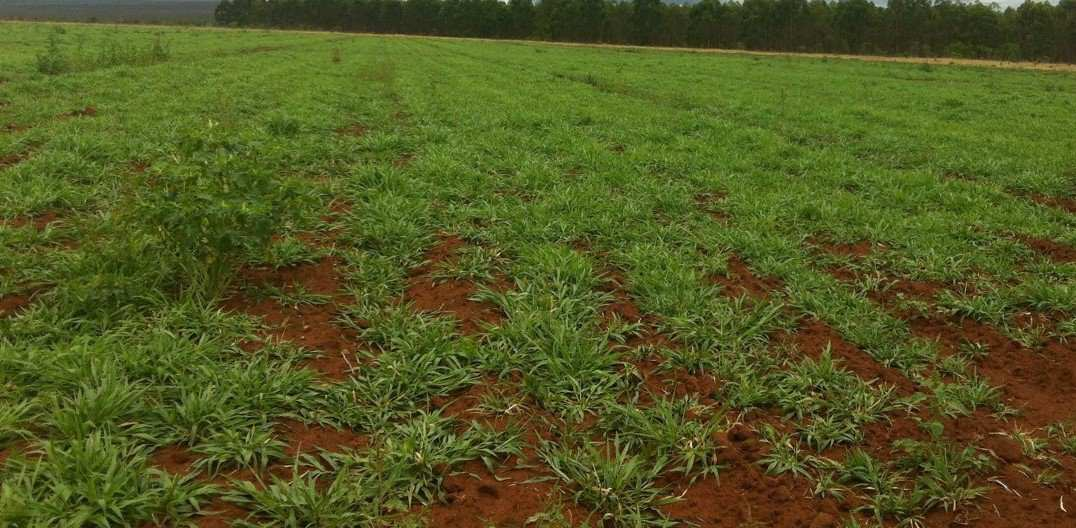 Recuperação de area degradada com B. Ruzziensis